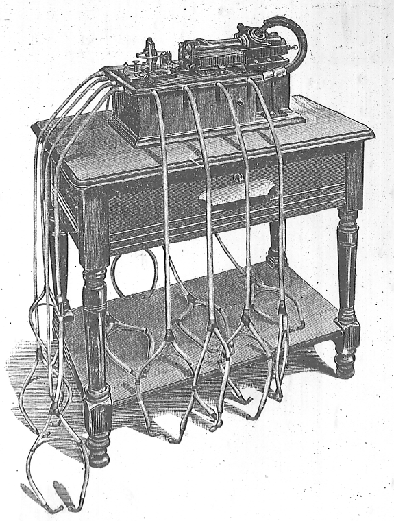 Edison Exhibition Phonograph, 1893